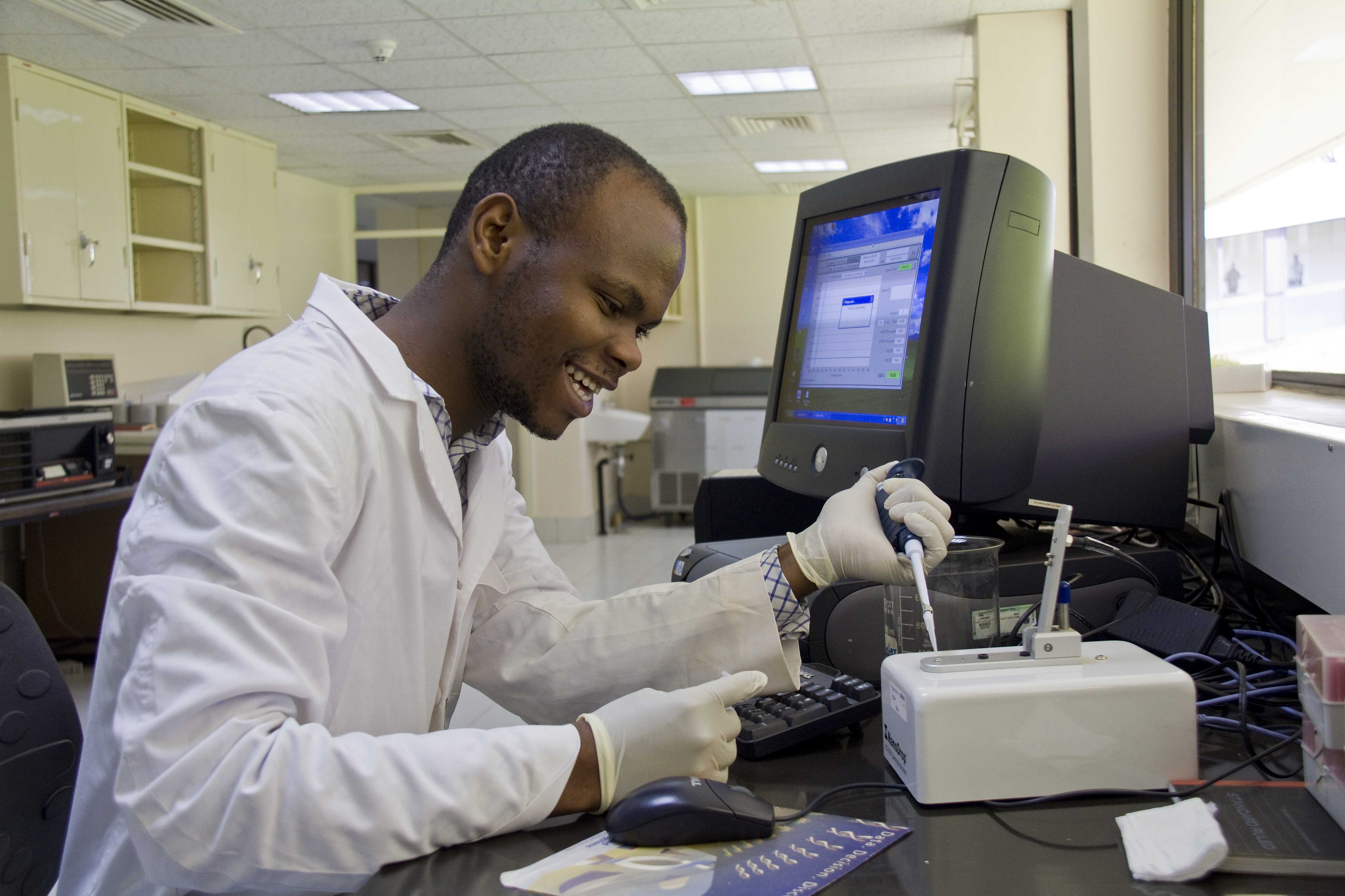 An MSc student at Kenyatta University, works with ICRISAT-Nairobi on the use of molecular markers in agriculture to speed up success in plant breeding programs.